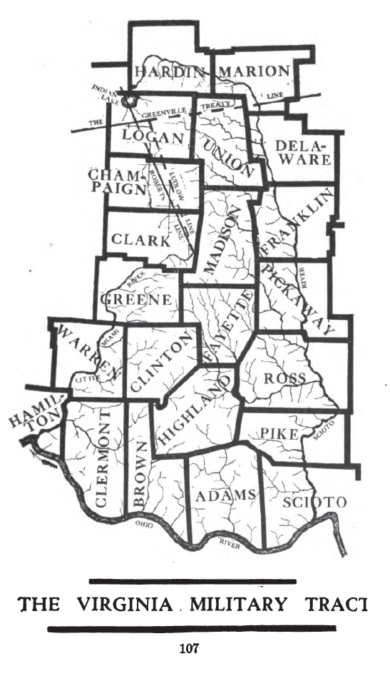 Lands in Ohio called the Virginia Military District of the historic Ohio Lands.